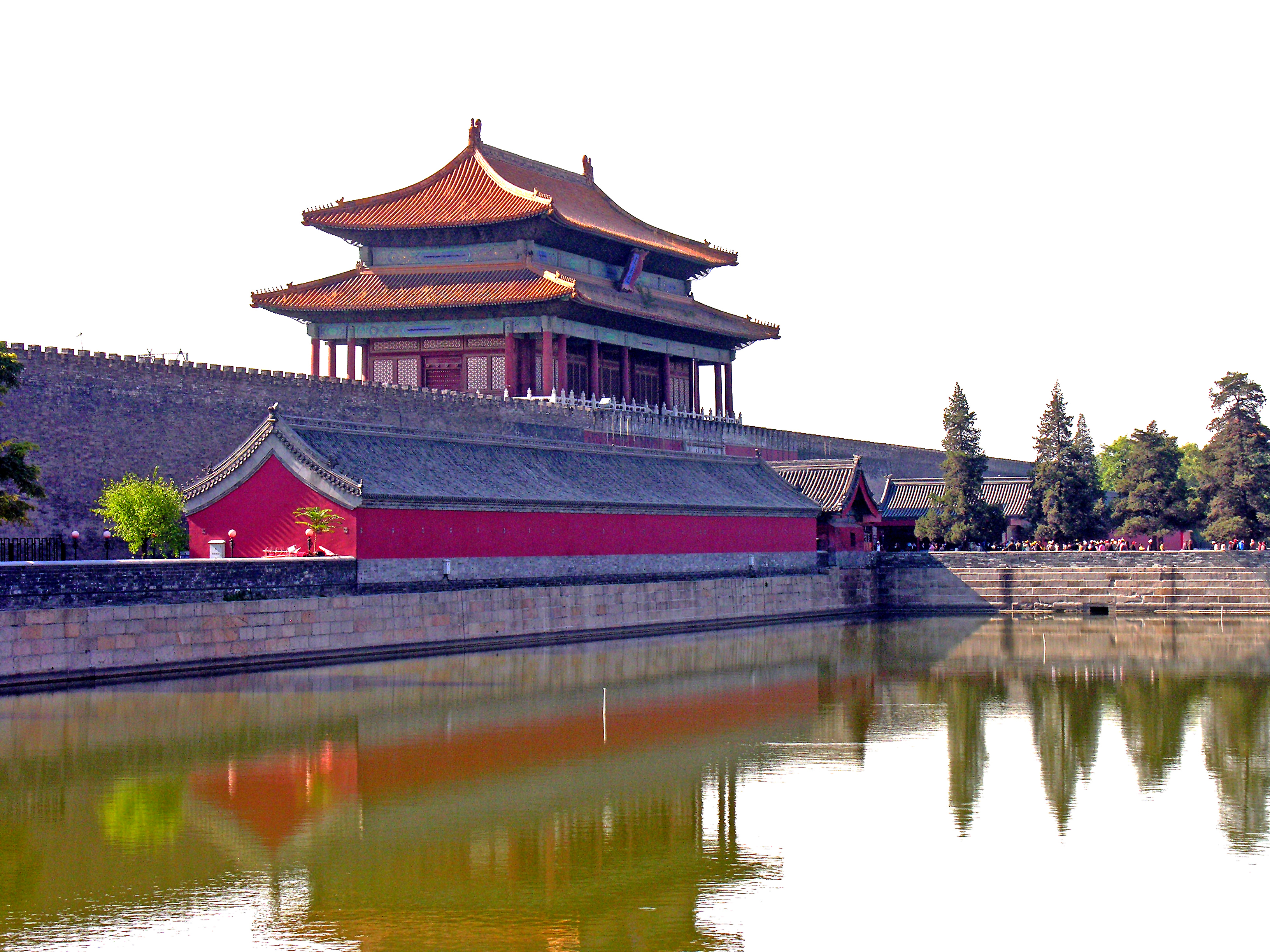 The top of the north gate as seen from outside the moat. The Forbidden City, Beijing, China